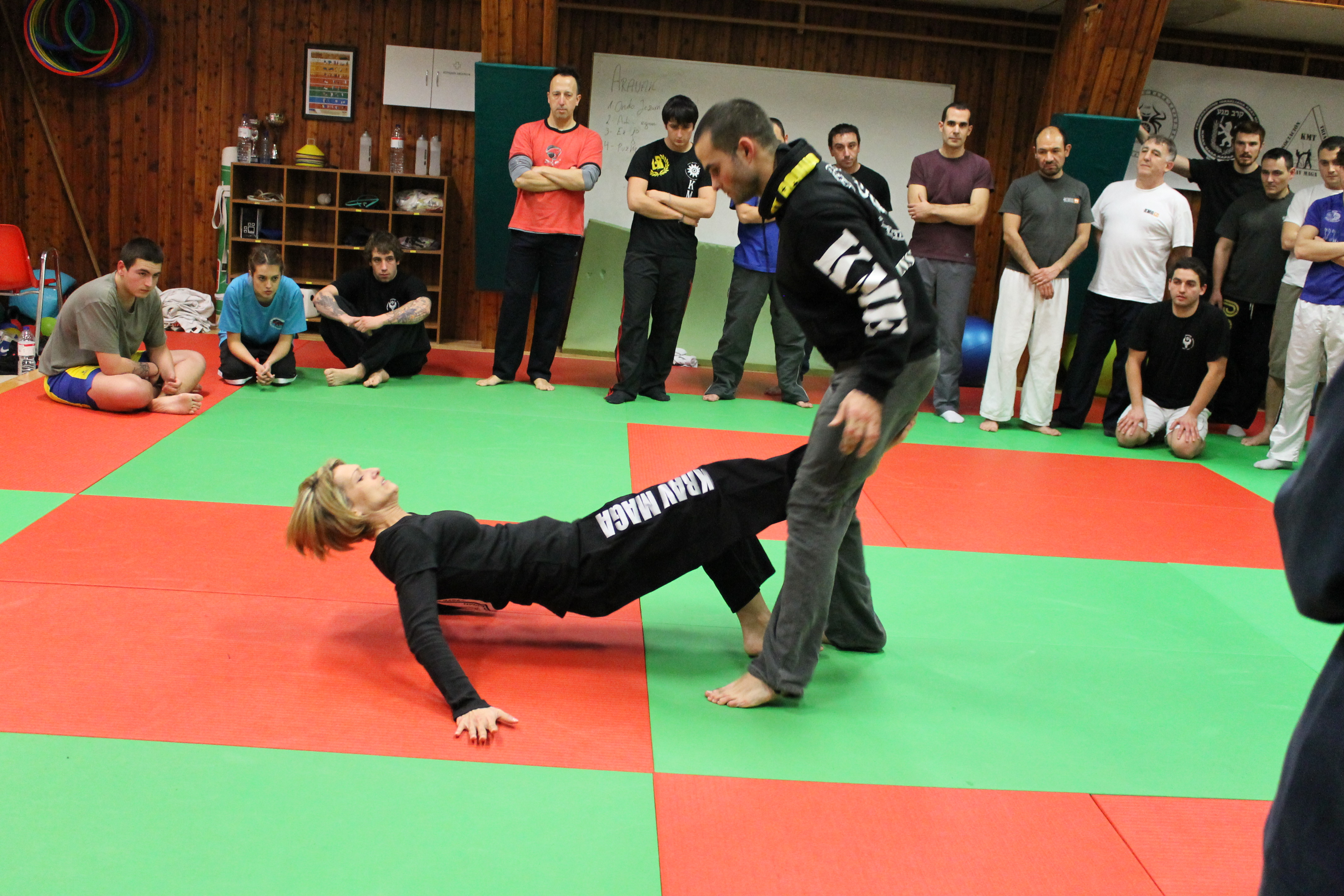 Krav Maga (Women's Self Defense) in the EKMT Instructor Paola Romano Black belt 3rd Dan